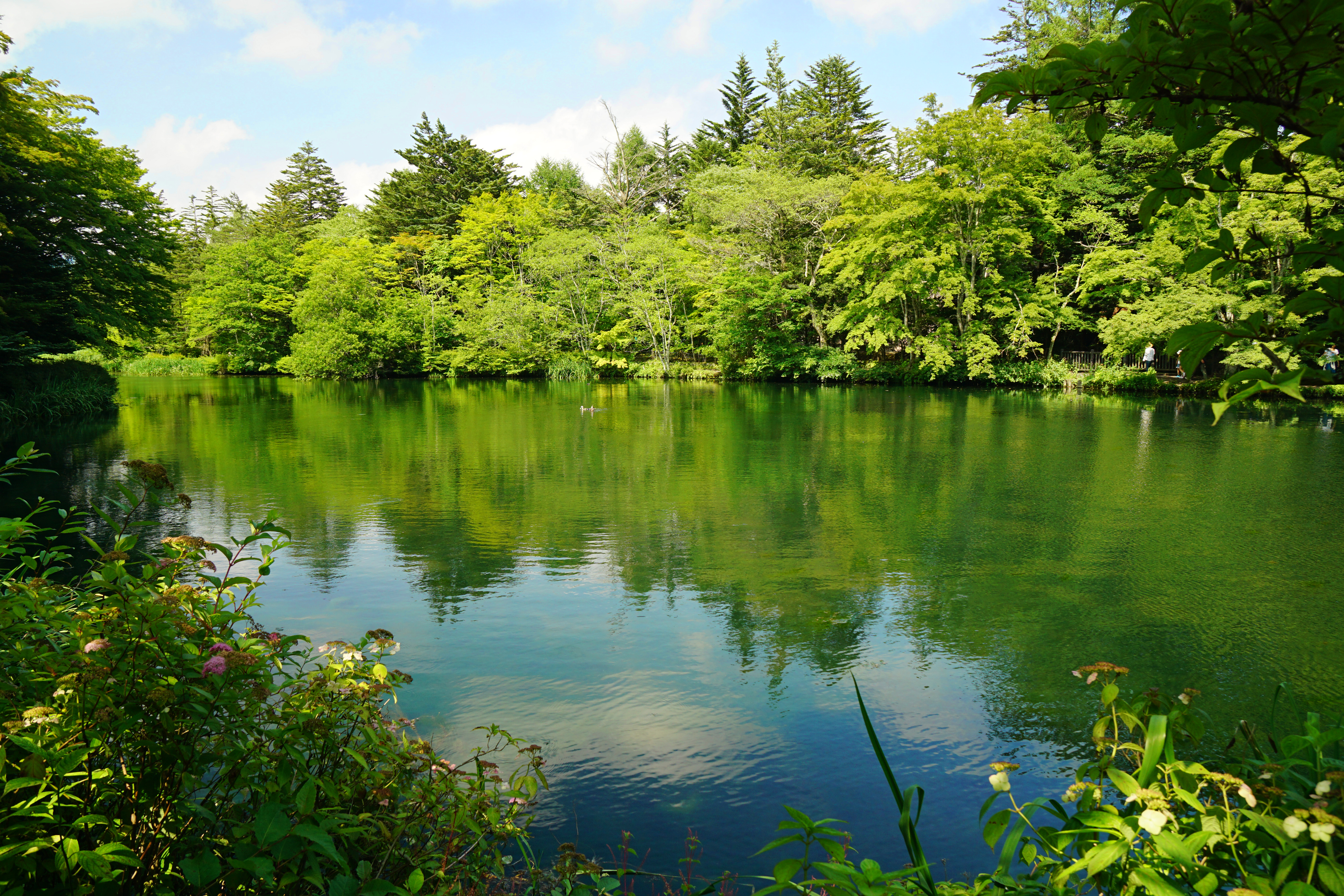 Kumoba-ike in Karuizawa, Nagano prefecture, Japan.